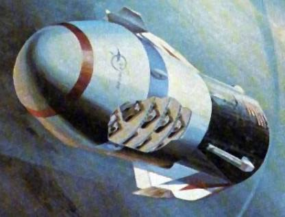 Pegasus VTOVL (Vertical Take Off and Landing) atmospheric reentry.